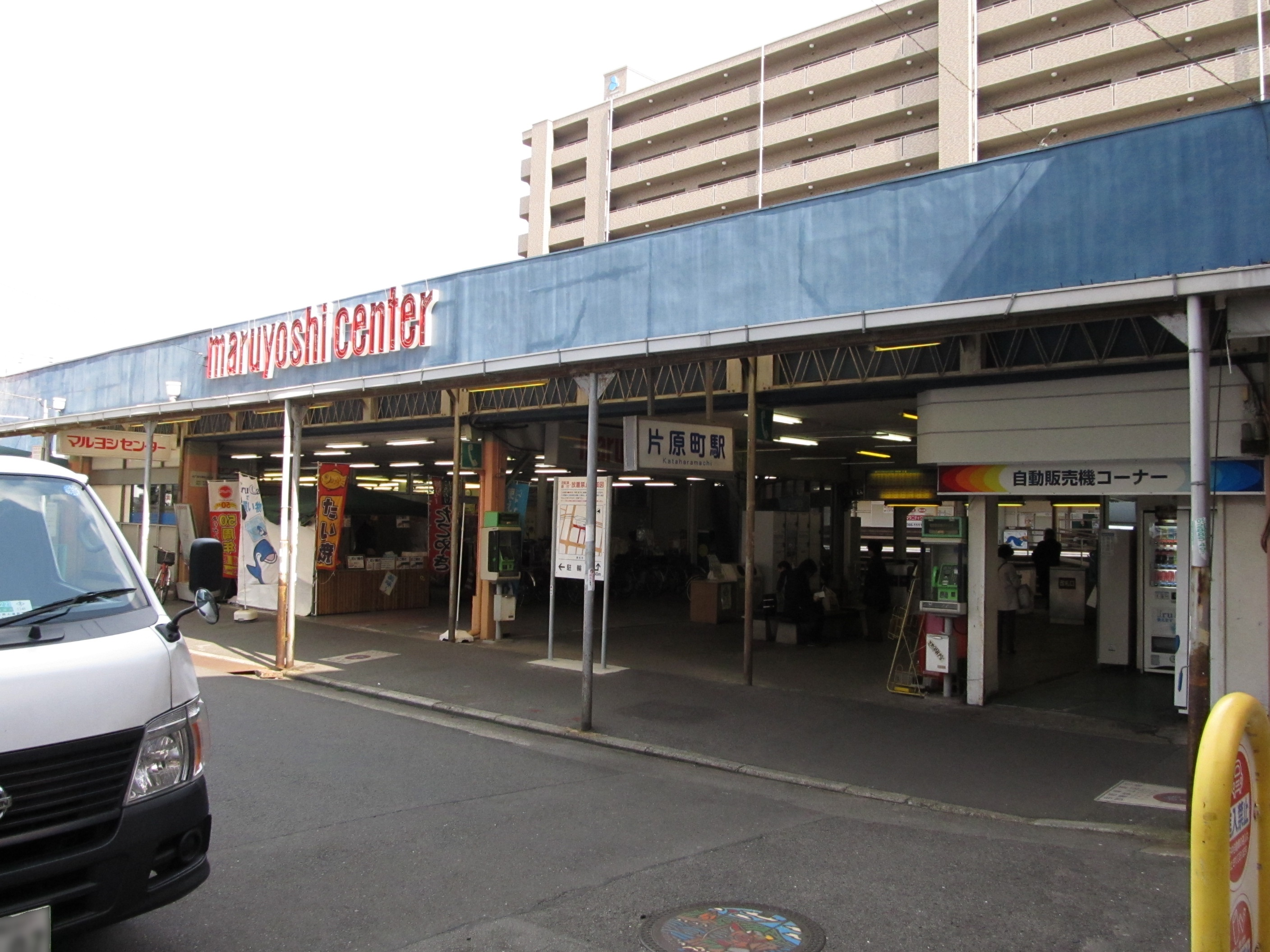 Takamatsu-Kotohira Electric Railroad Kotohira Line Kataharamachi Station Building